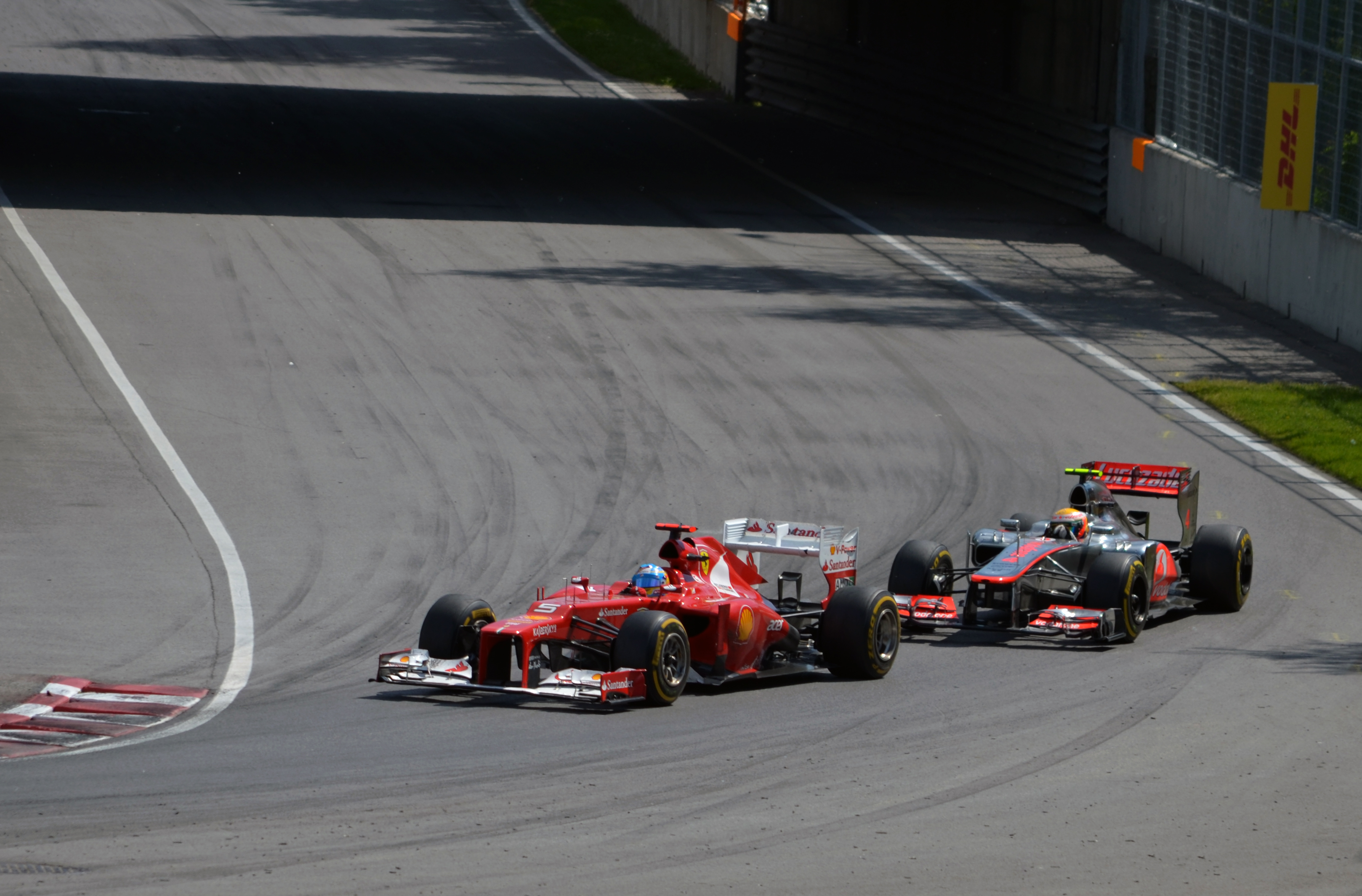 Lewis Hamilton in the McLaren - Mercedes MP4-27 right on the gearbox of Fernando Alonso in the Ferrari 2012 at turn 8 of Circuit Gilles Villeneuve on lap 65 of the 2012 Canadian Grand Prix.